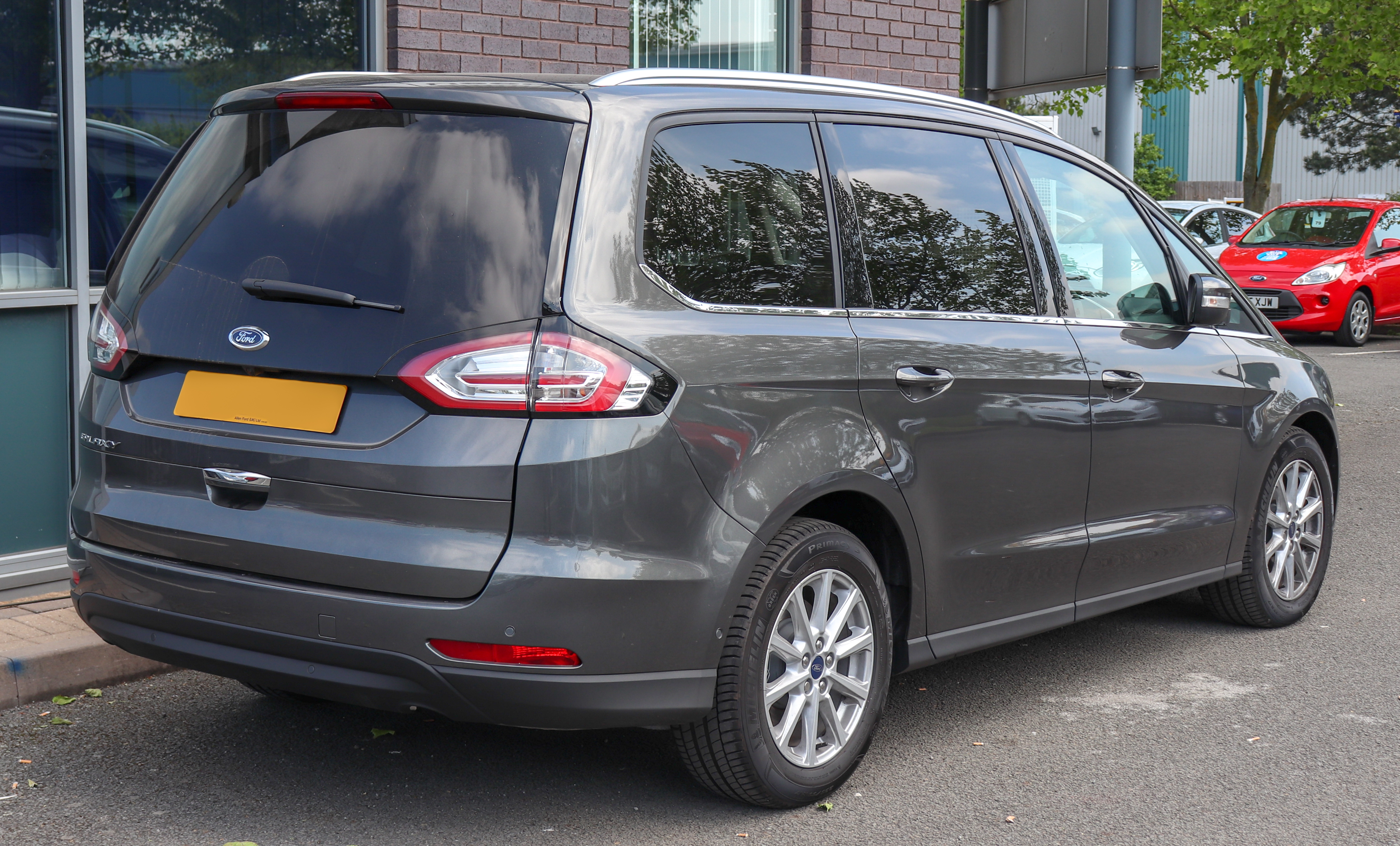 2018 Ford Galaxy Titanium X TDCi 2.0 Rear Taken in Leamington Spa